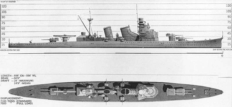 U.S. Navy recognition drawing for Japanese Aoba-class heavy cruisers which included Kinugasa.